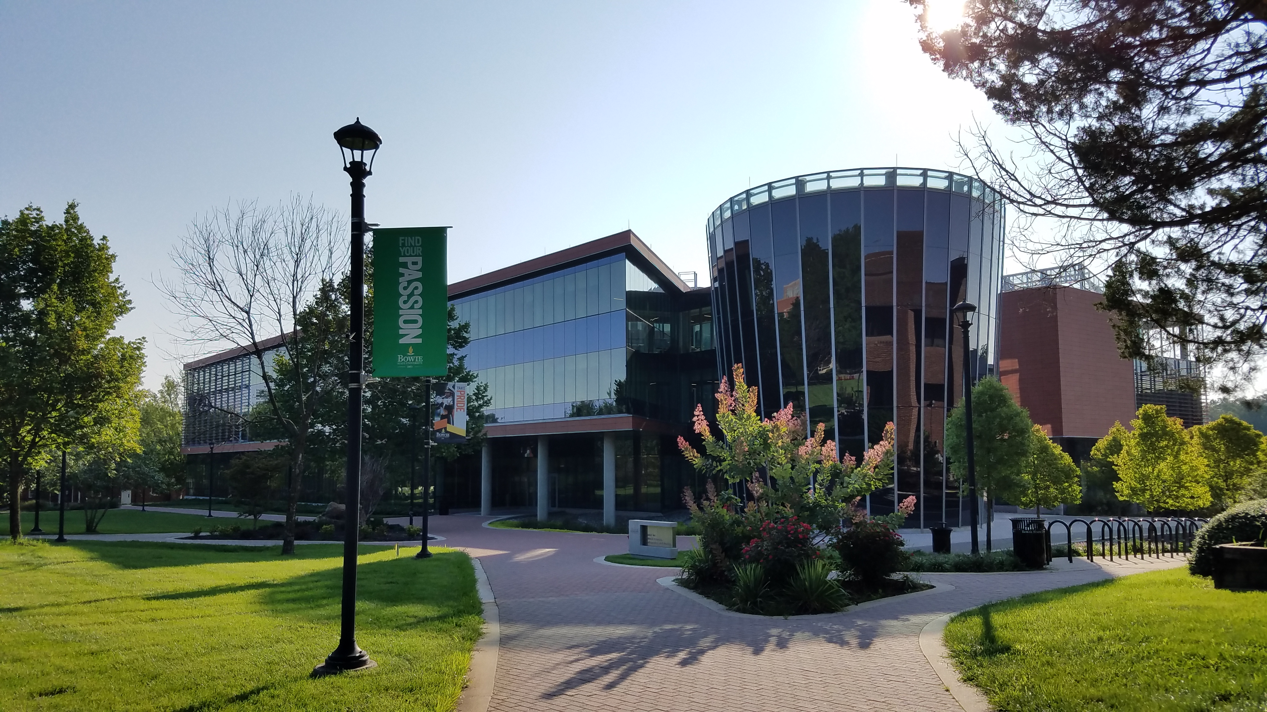 The Center for Natural Sciences, Mathematics and Nursing at Bowie State University is one of the region’s premier centers for transformational learning and research. The building design and construction were guided by three overarching principles: student engagement, flexibility and sustainability.